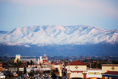 murrieta